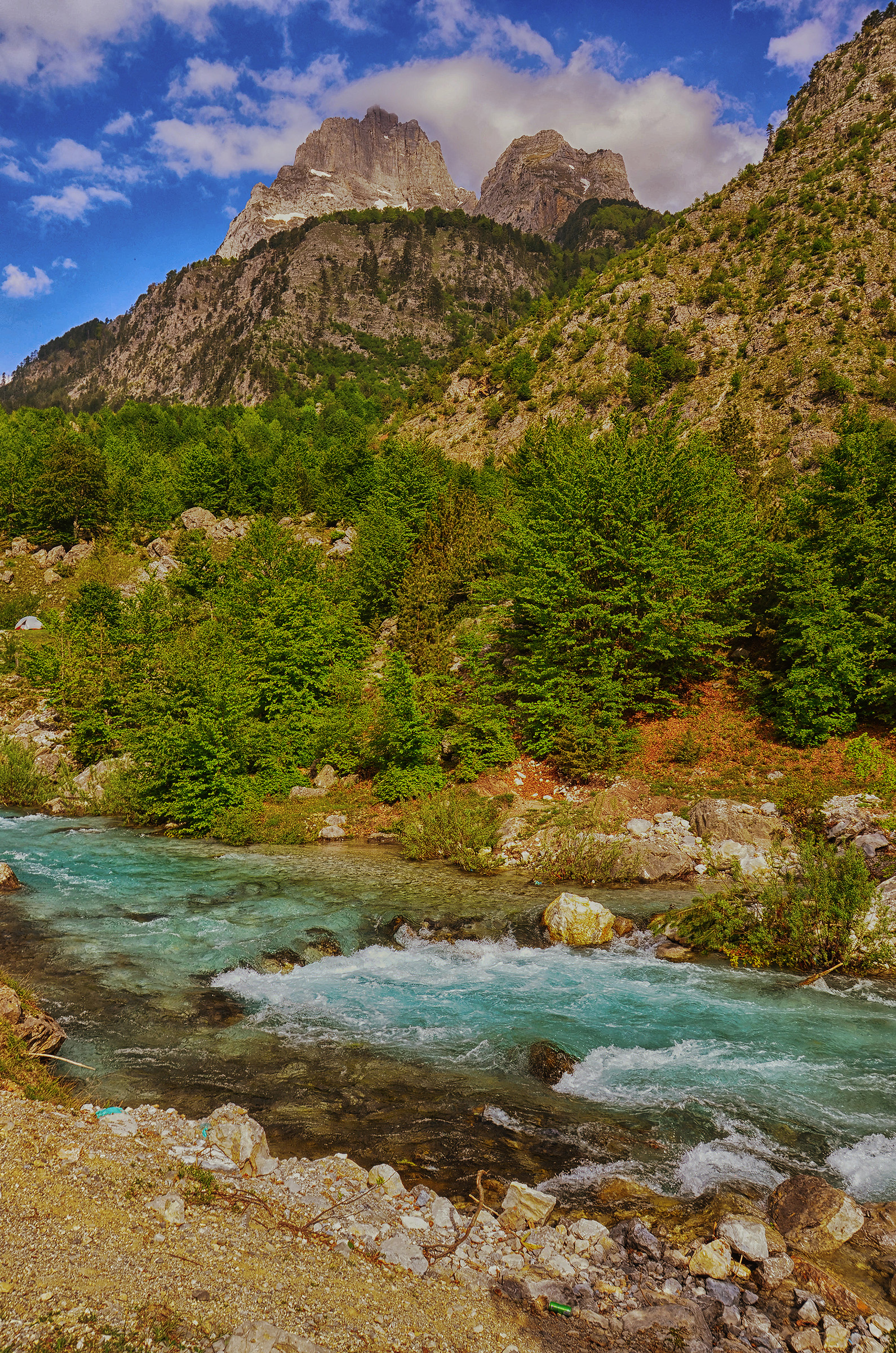 River Valbona near Valbonë (Çuka Dunishës), Tropojë, Albania